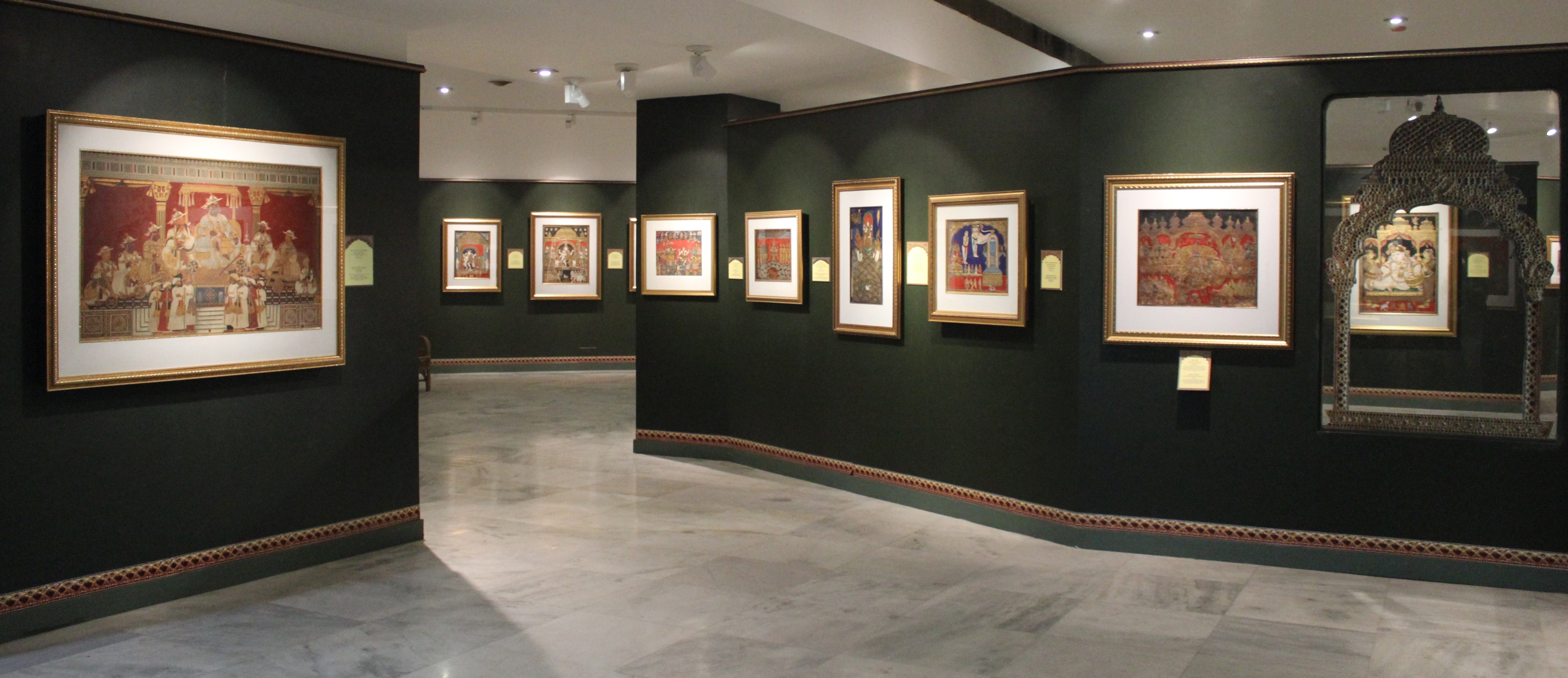 Tanjore and Mysore Painting Gallery